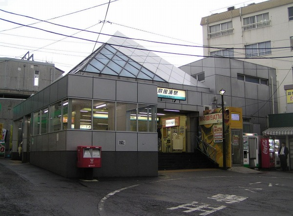 Keikyu Byobugaura station entrance